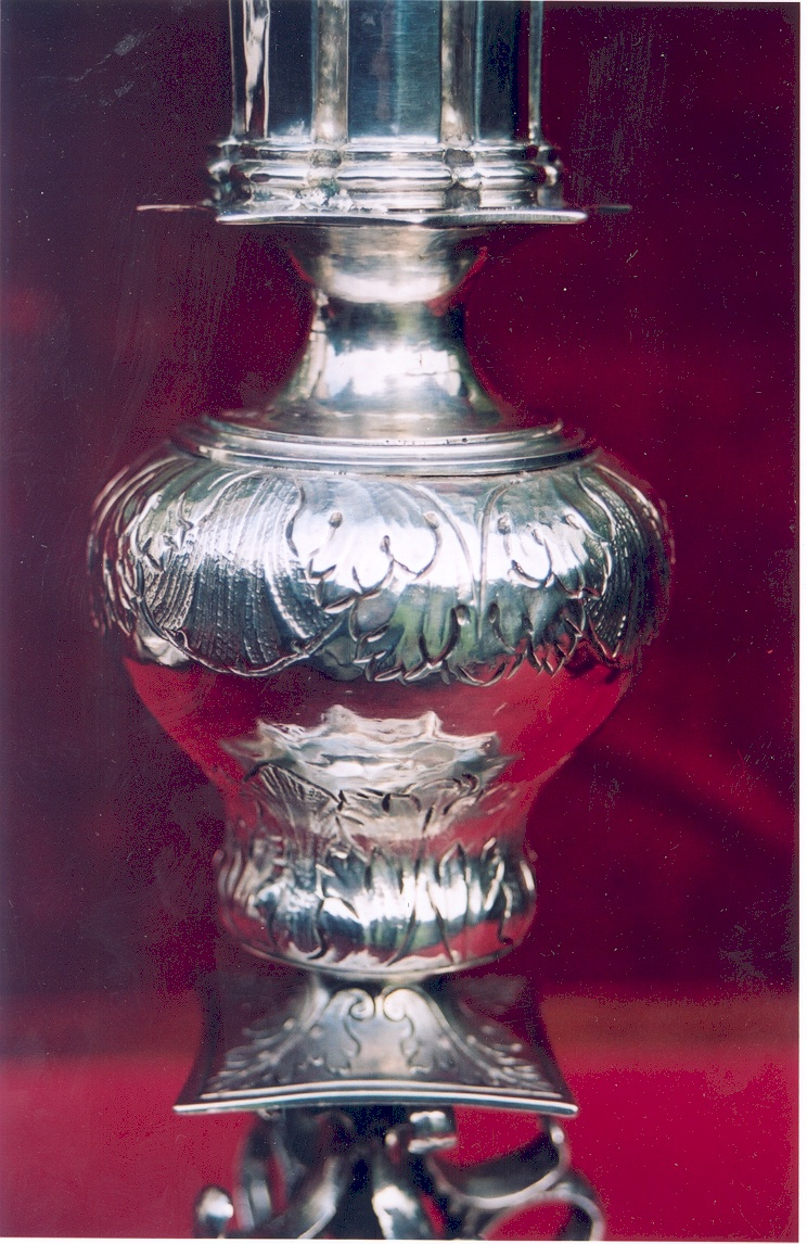 part of a candlestick with marks of Robert Cooper, London 1673. Photo: R.W. de Salis, March 2006. Summary part of a candlestick with marks of Robert Cooper, London 1673. Photo: R.W. de Salis, March 2006.